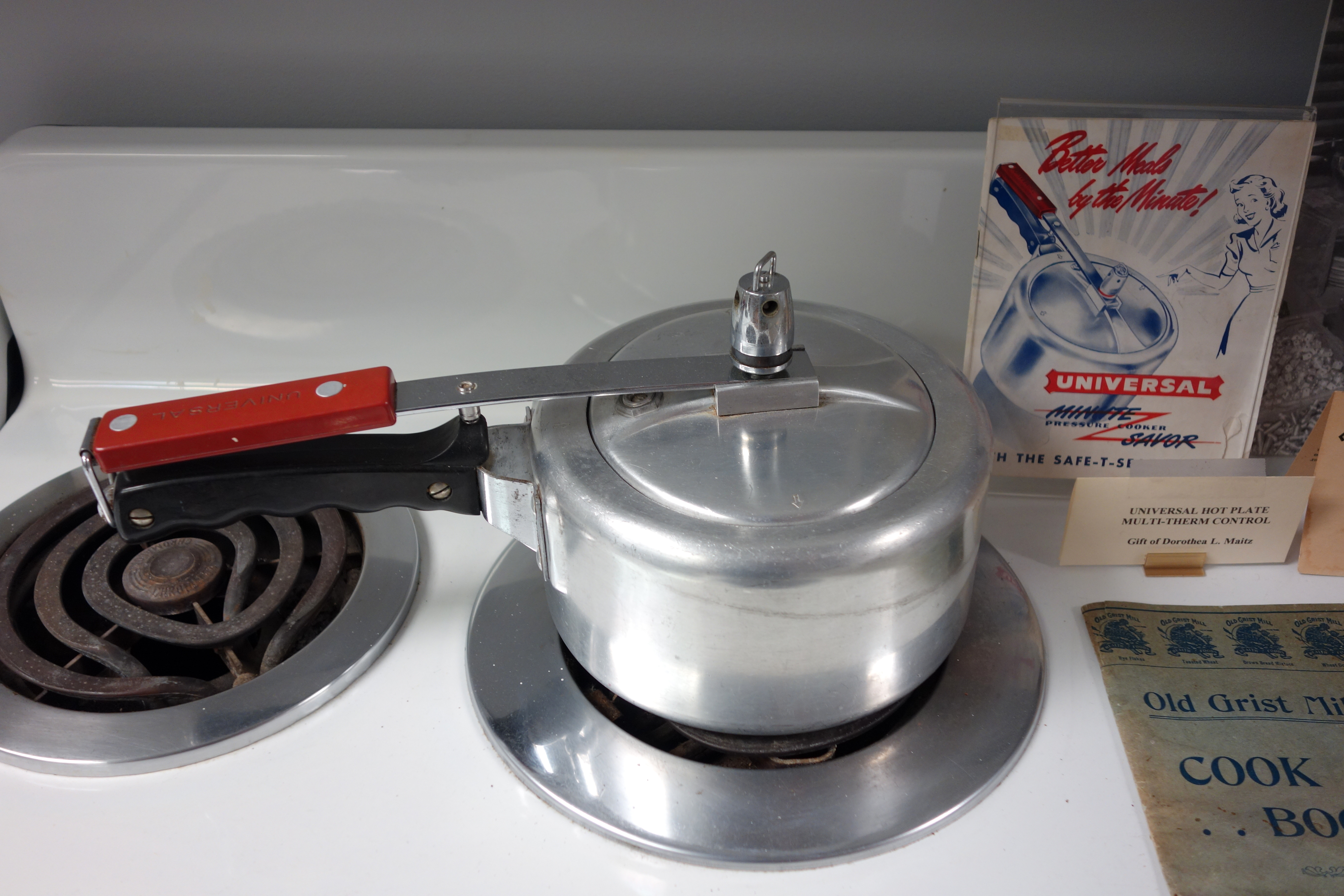 Exhibit in the New Britain Industrial Museum, New Britain, Connecticut, USA.